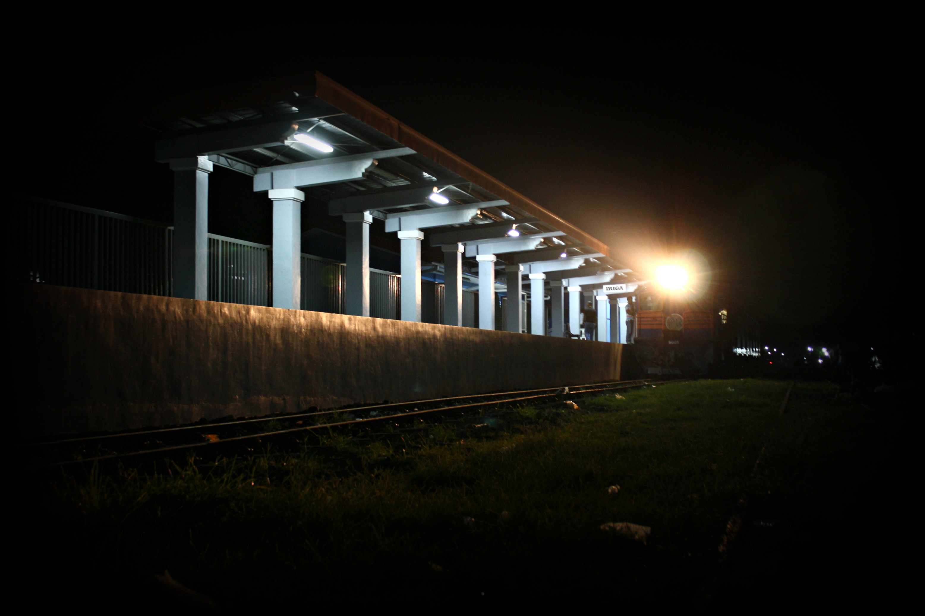 With the Philippine National Railway back in operation in Camarines Sur, the train now runs from Naga to Legazpi City. The train arrives in Iriga city at dawn and passes back at the station at seven in the evening.